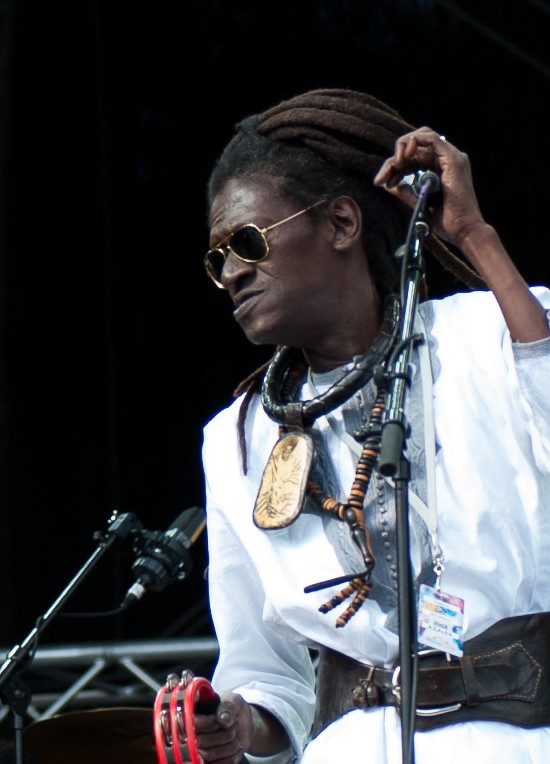 Cheikh Lô at Way Out West 2013 in Gothenburg, Sweden